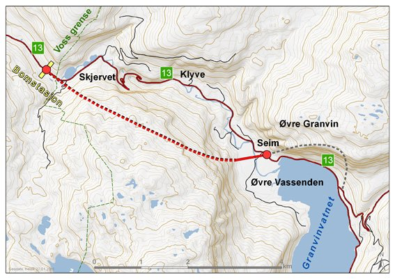 Tunsbergtunnel planning map by Statens vegvesen